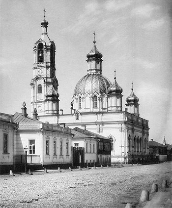 Moscow, St Nikita the Goth Church in Stariye Tolmachi. Destroyed in 1935.